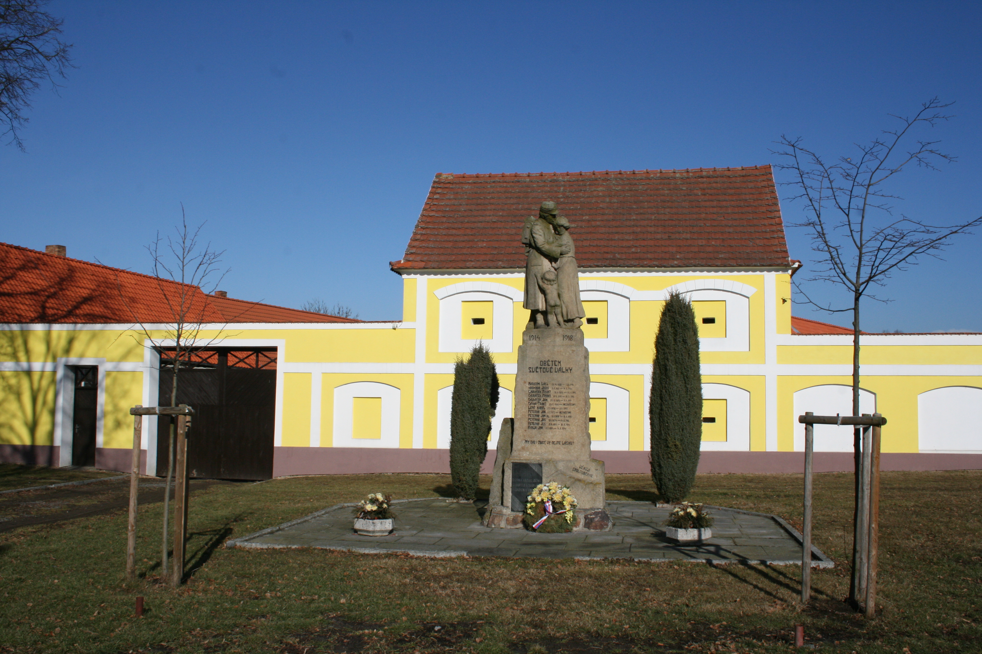 Borkovice Village, Tábor District, Czech Republic. World War I memorial.